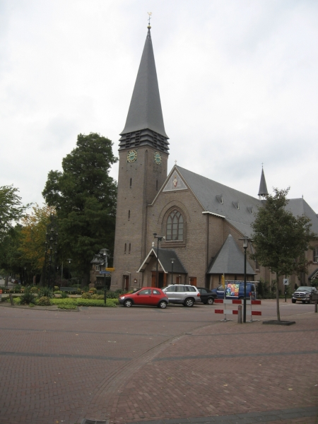 Pancratiuschurch in Geesteren, Overijssel, the Netherlands